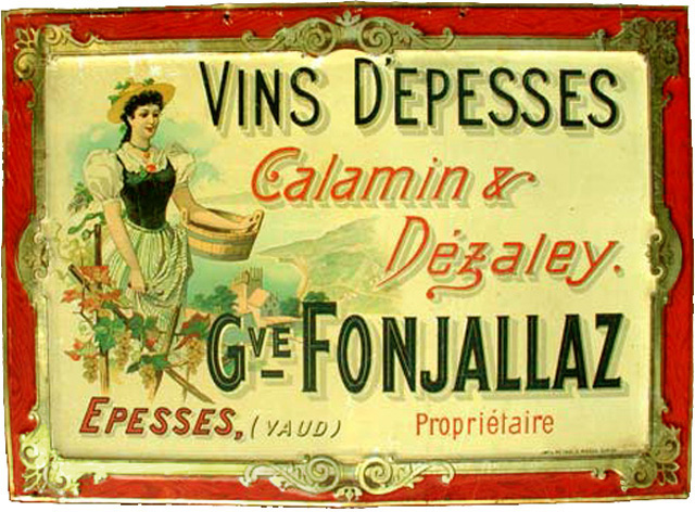 Vaud wine label XIXe